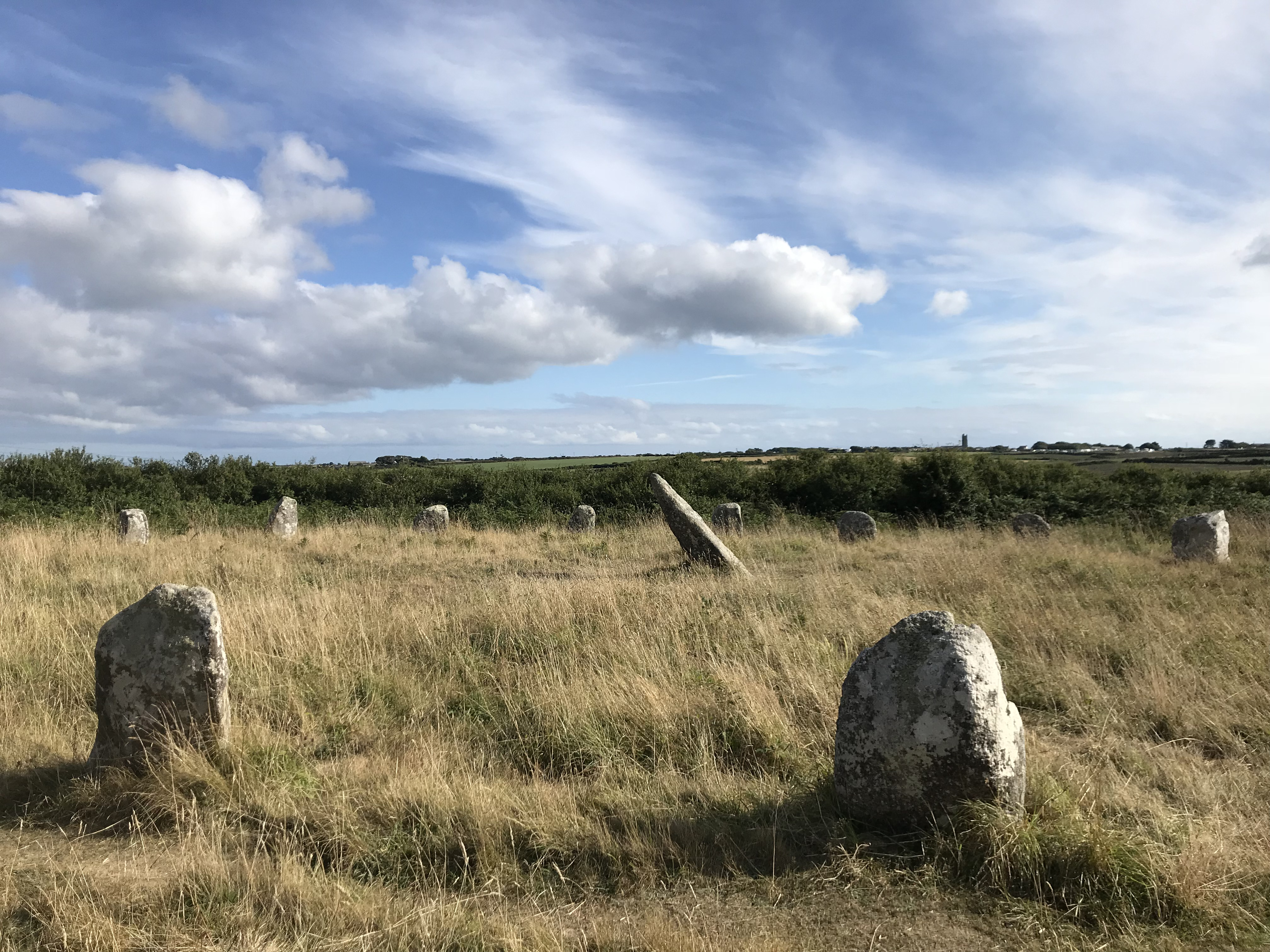 Boscawen-ûn stone circle in Cornwall UK